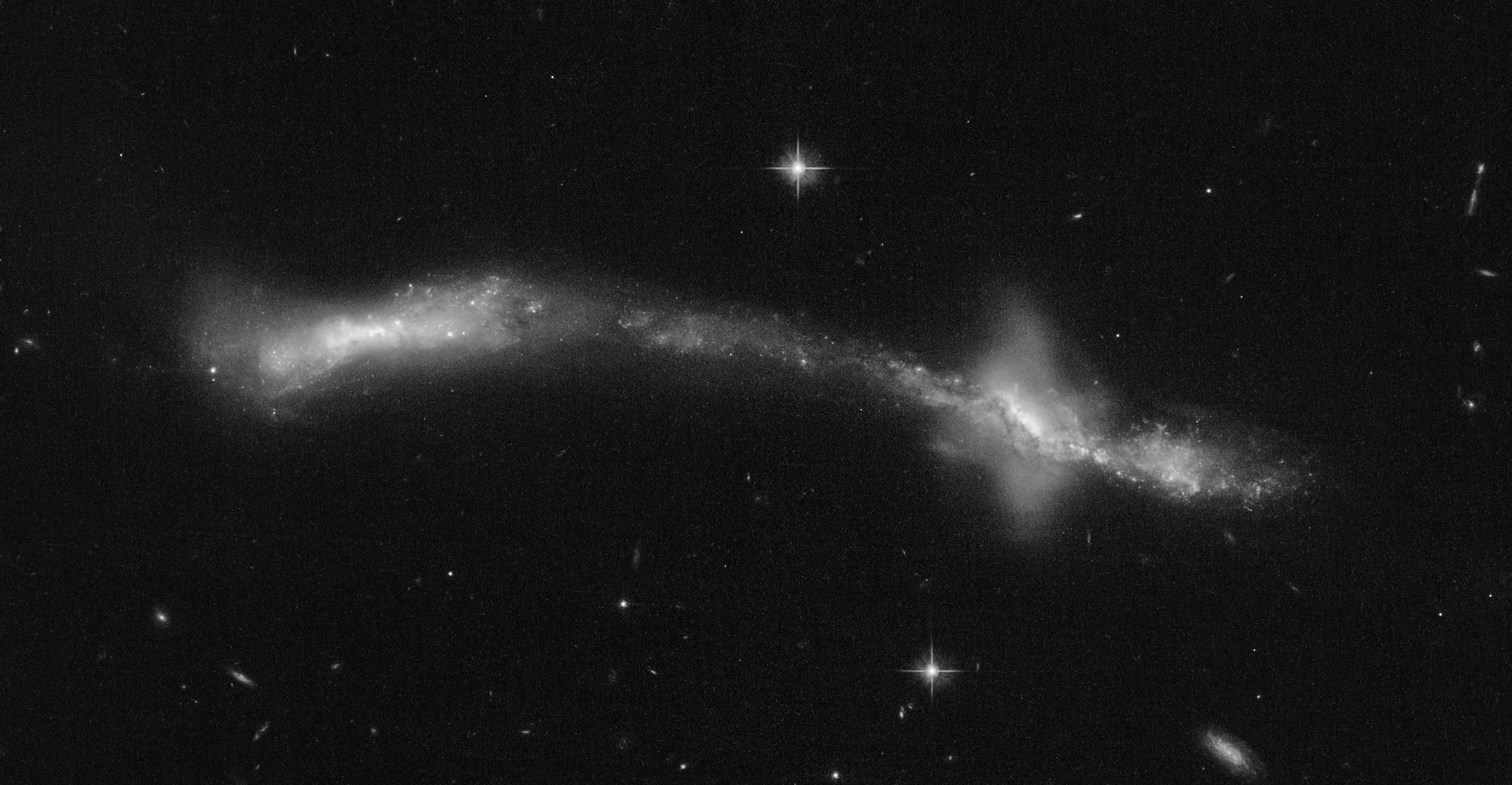 I'm sure there are two galaxies doing something here, I'm just not entirely sure what went on in the past billion or so years to get a big, fluffy line of stars, gas, and dust all stretched out like that. A color view is available at the Legacy Survey Viewer: (Beware the big green artifacts) Establishing HST's Low Redshift Archive of Interacting Systems All Channels: ACS/WFC F606W North is 8.88° counter-clockwise from up.